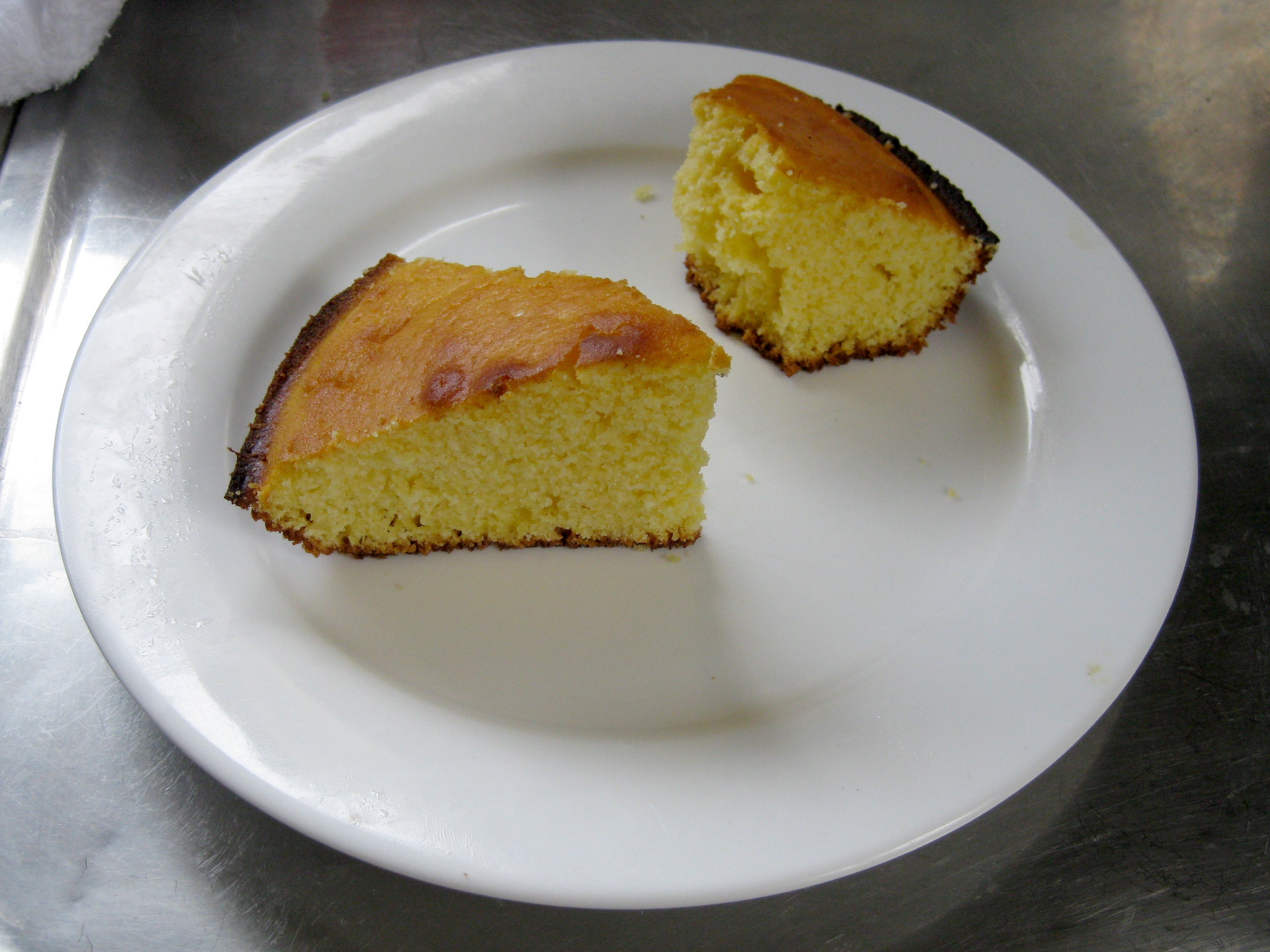 Piece of cornbread on white plate.